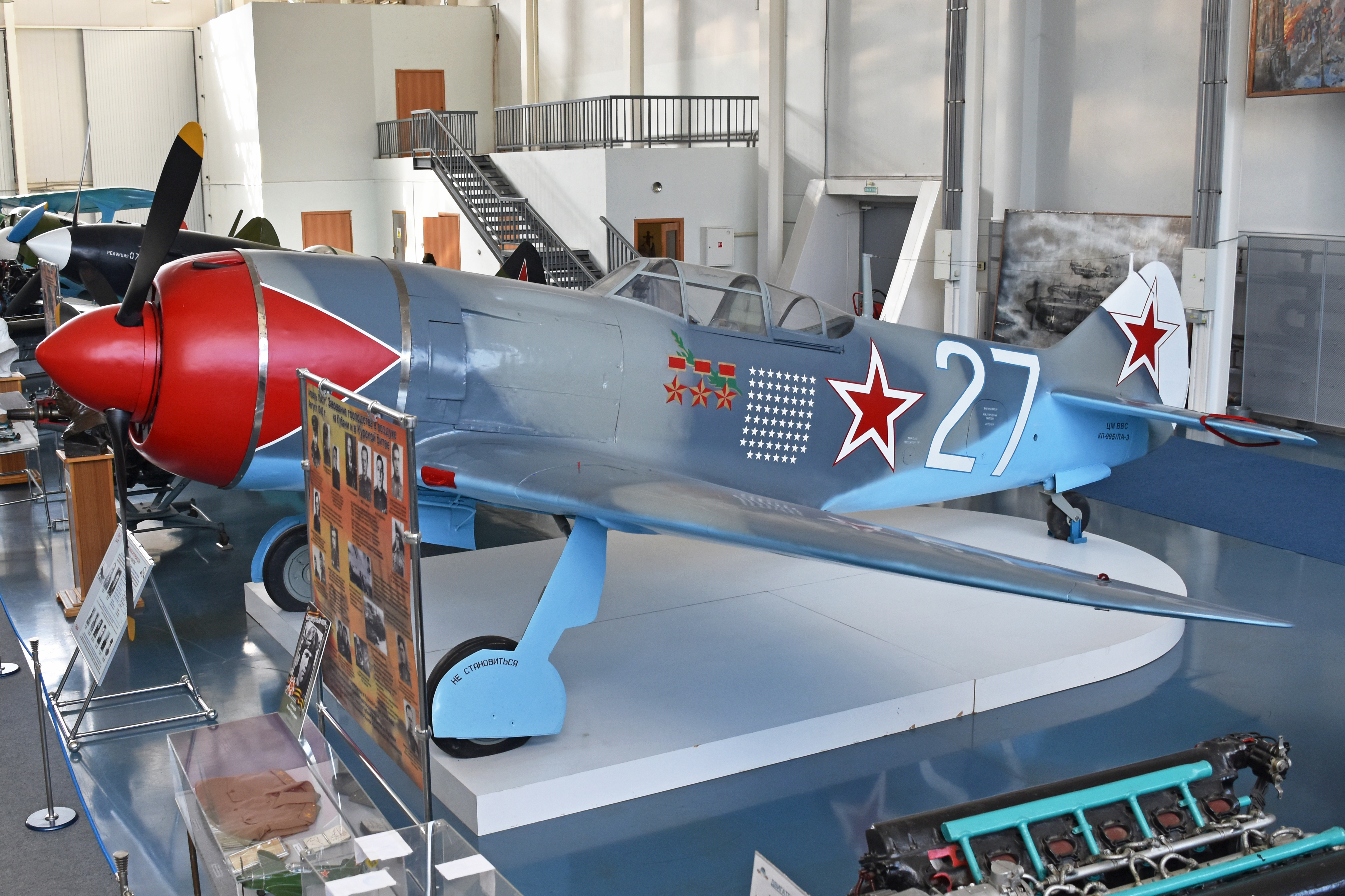 c/n unknown. One of only two genuine La-7s known to survive, this famous aircraft is the actual machine flown by Soviet ace Ivan Kozhedub, and as such it is a very significant airframe. Kozhedub is regarded as the best Soviet ace of WW2, having a natural gift for deflection shooting. In 330 combat missions he took part in 120 engagements and scored 62 victories including an Me-262. The scheme is popular on both warbirds and museum aircraft, but this is the real thing! While the aircraft itself is original, there has been much debate about the accuracy of the colour scheme. As an exhibit, it has certainly worn this scheme since first seen at Monino in the early 1970's. It is on display in Hangar 6A (the first new hangar near the entrance) at the Central Air Force museum, Monino, Moscow Oblast, Russia. 27th August 2017